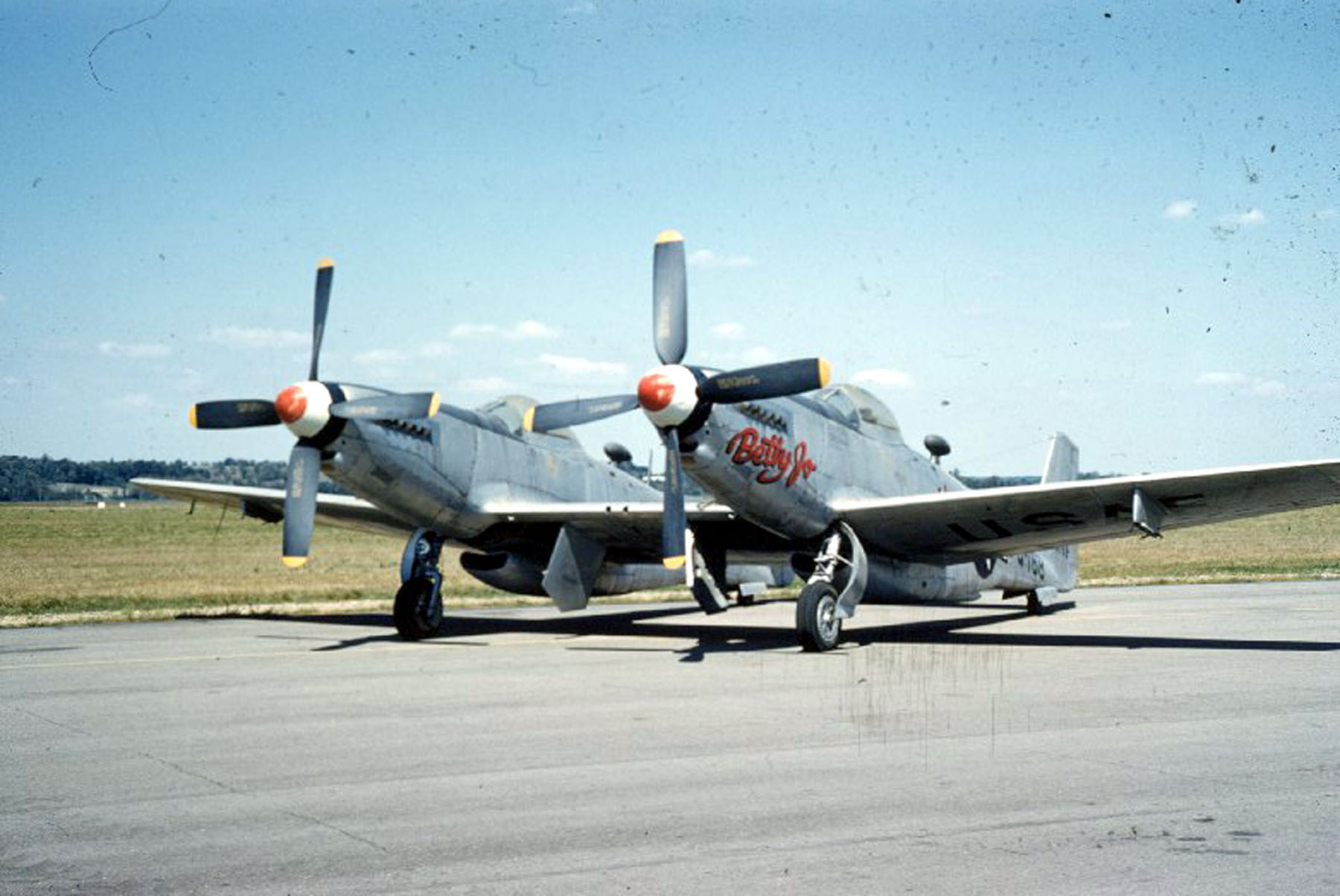 North American F-82B (S/N 44-65168).